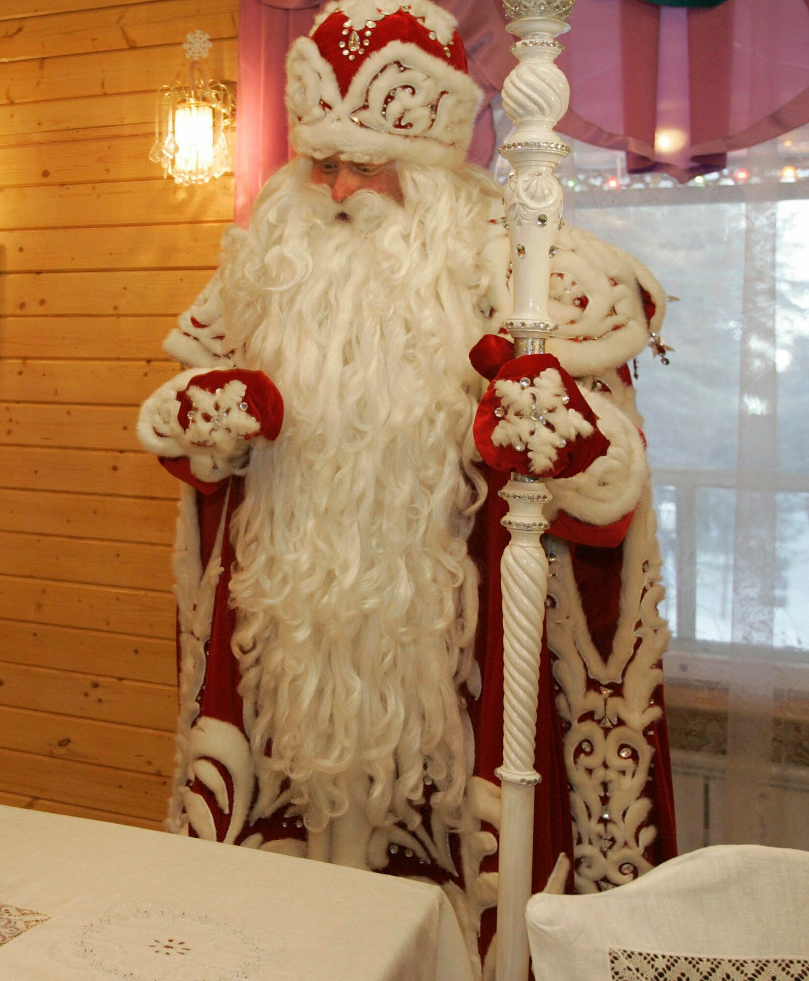 VOLOGODSKAIA REGION. At Ded Moroz's residence.